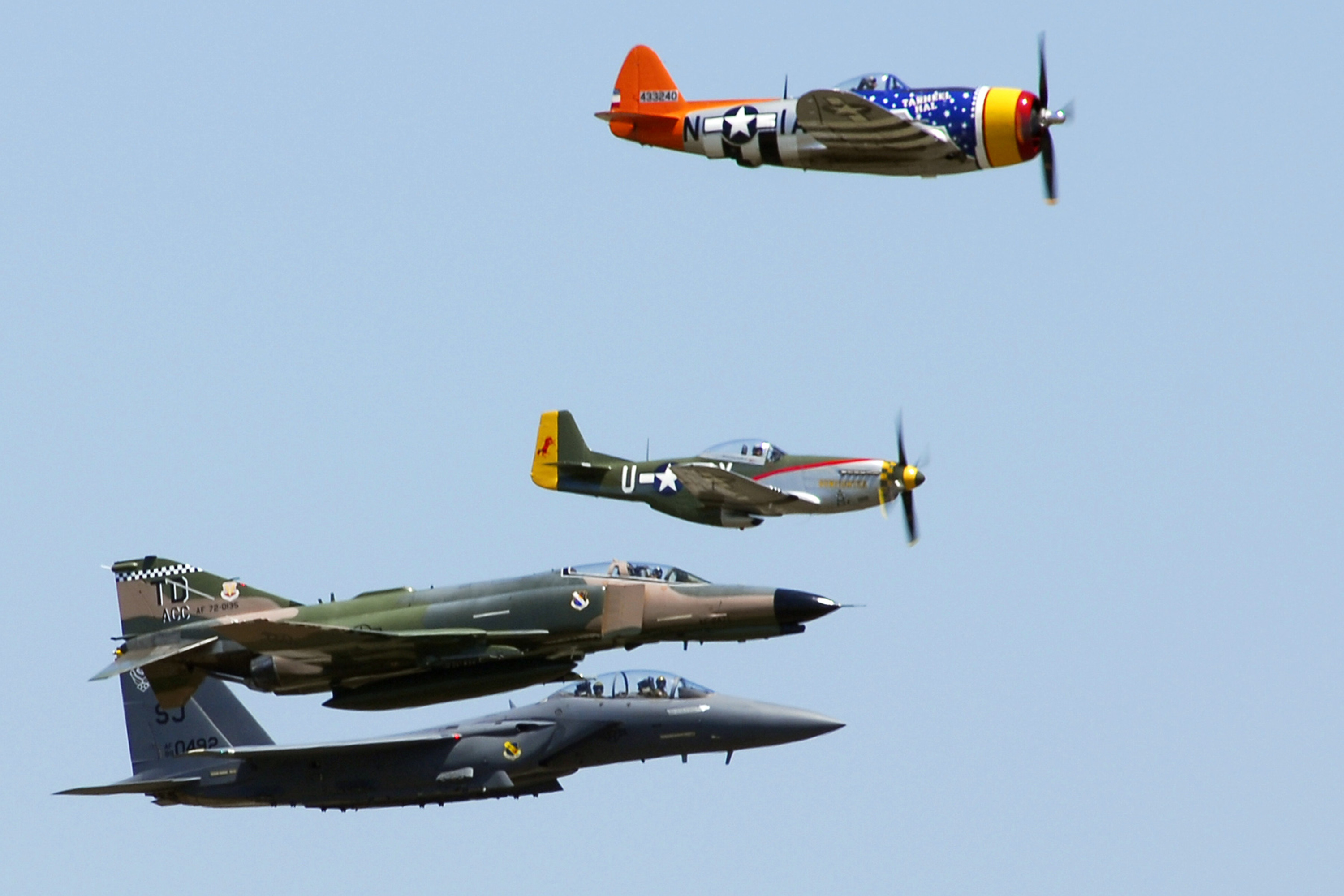 Aircraft Fighter Plane P-47 Thunderbolt, P-51 Mustang, F-4 Phantom, F-15 Strike Eagle